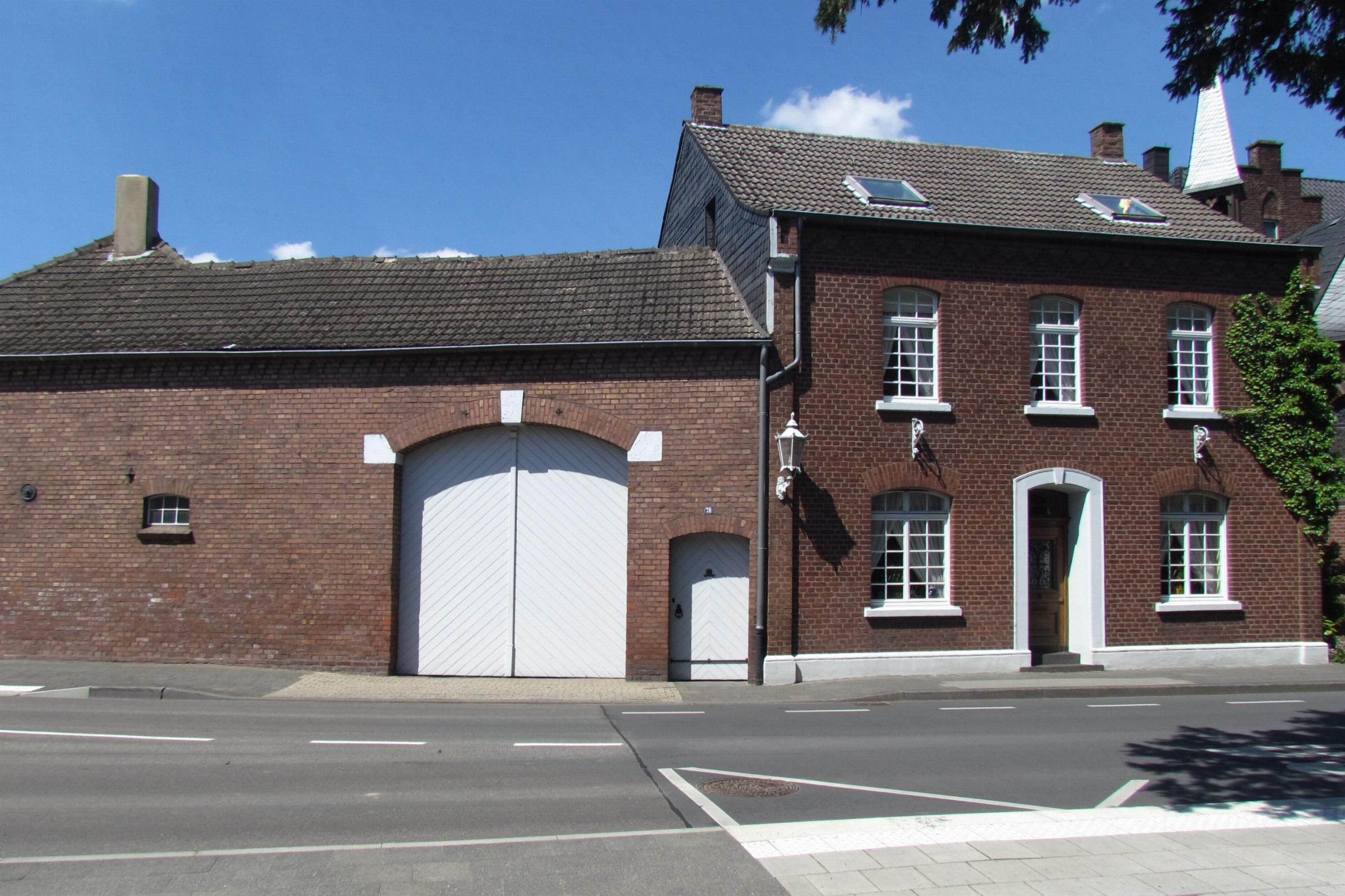 This is a photograph of an architectural monument.It is on the list of cultural monuments of Korschenbroich